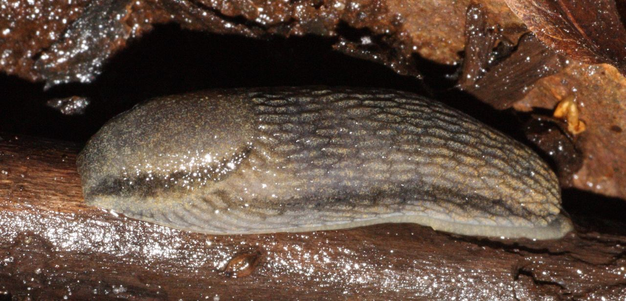 Arion fasciatus resting